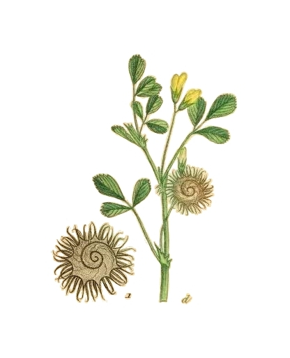 Illustrations of Medicago disciformis.